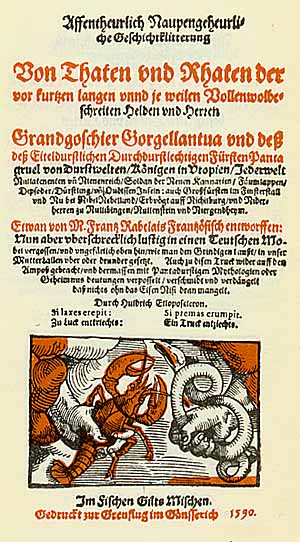 Titel page of Affentheurlich Naupengeheurliche Geschichtklitterung by Johann Fischart, 1590 edition printed in Strassbourg.